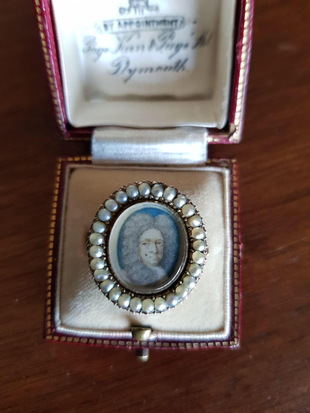 Sir Richard Blackham